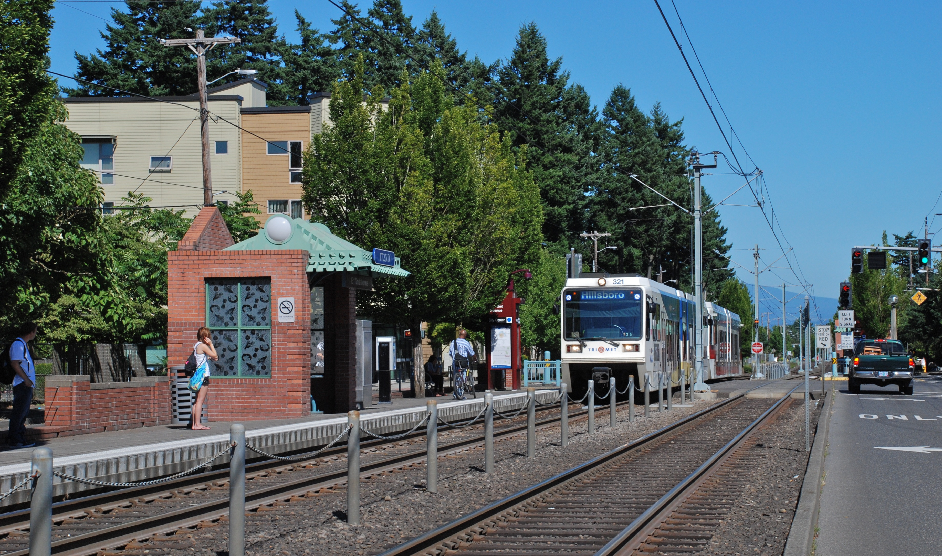 The East 172nd Avenue MAX station, viewed from the west, with a westbound train arriving.